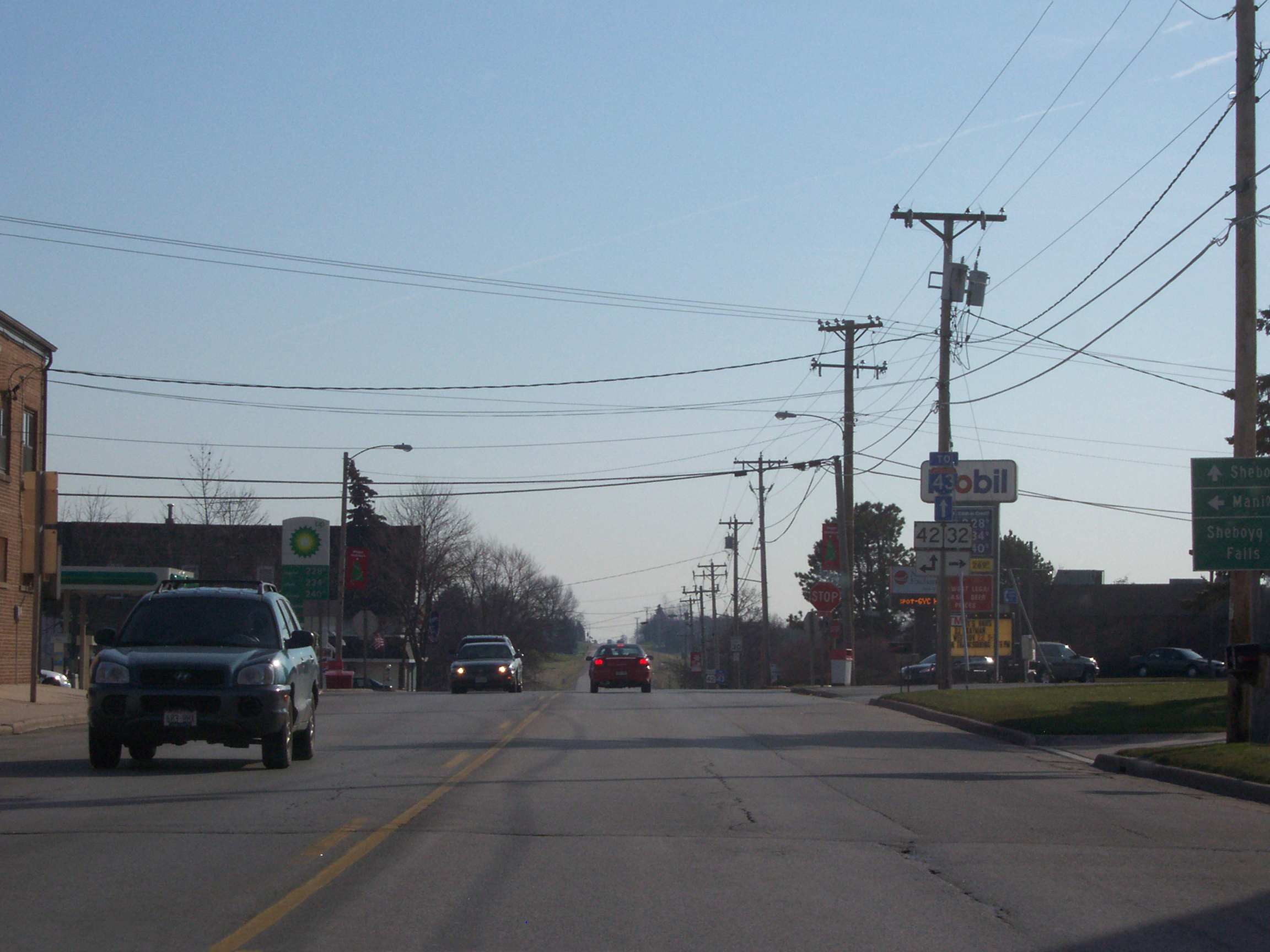 Category:Images of Wisconsin highways (Original text: Looking east at the intersection of Wisconsin Highway 32 and Wisconsin Highway 42 in Howards Grove, Wisconsin.)